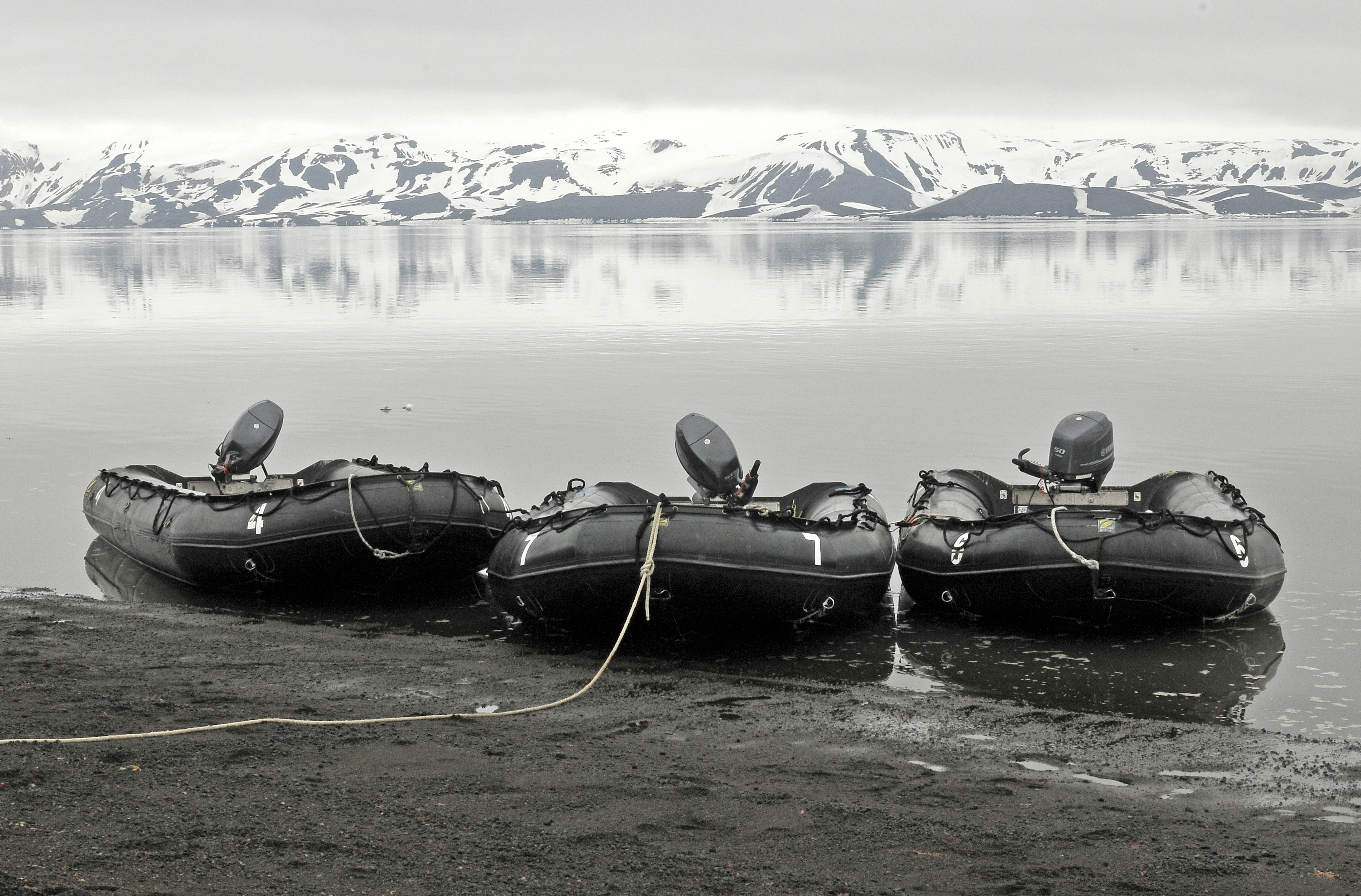 Touristic boats at the beach. Telefon Bay, Deception Island, South Shetland Islands, Antarctica